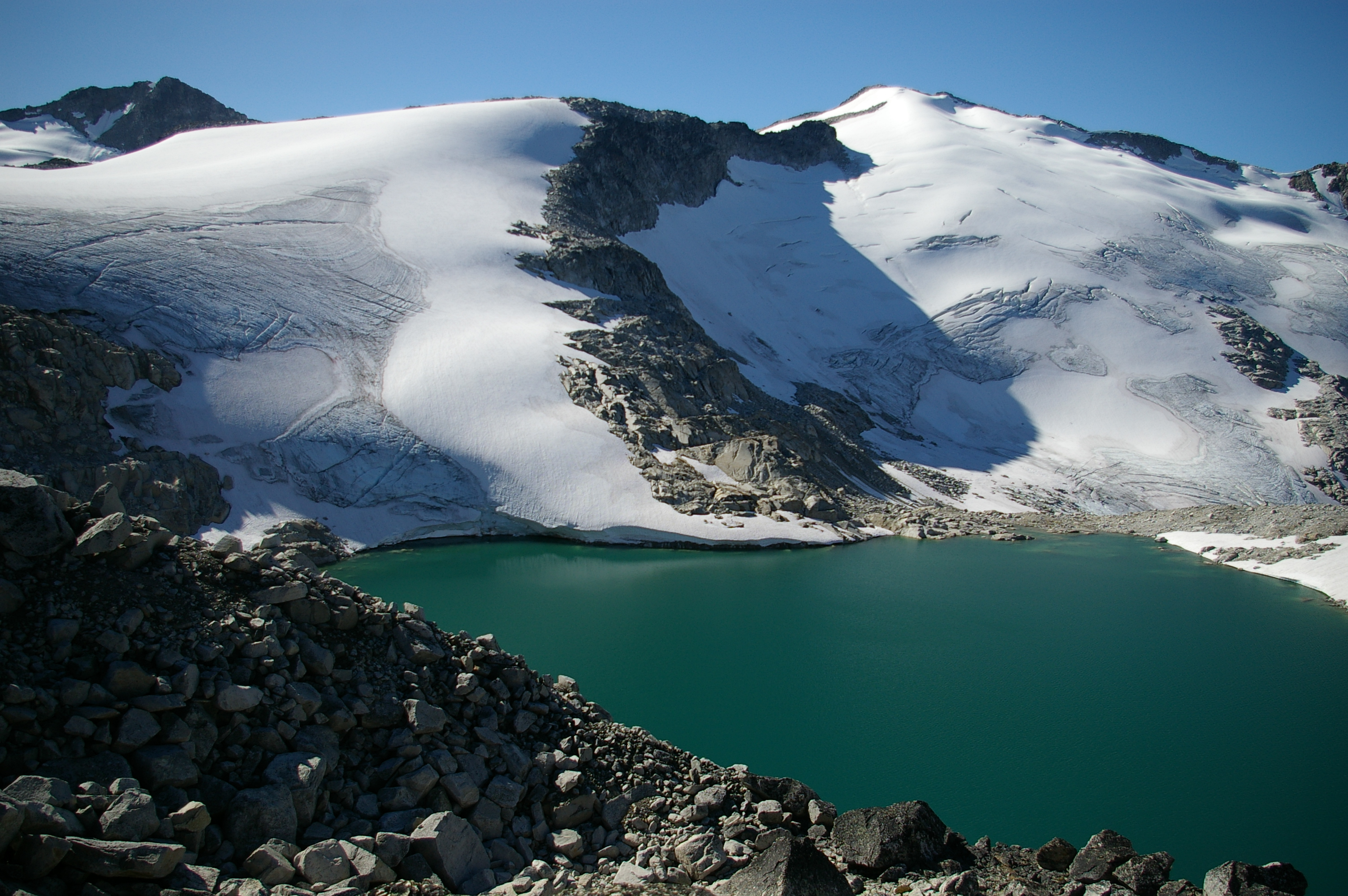 Mount Oleg in BC Canada (Mount Olds in upper left corner)